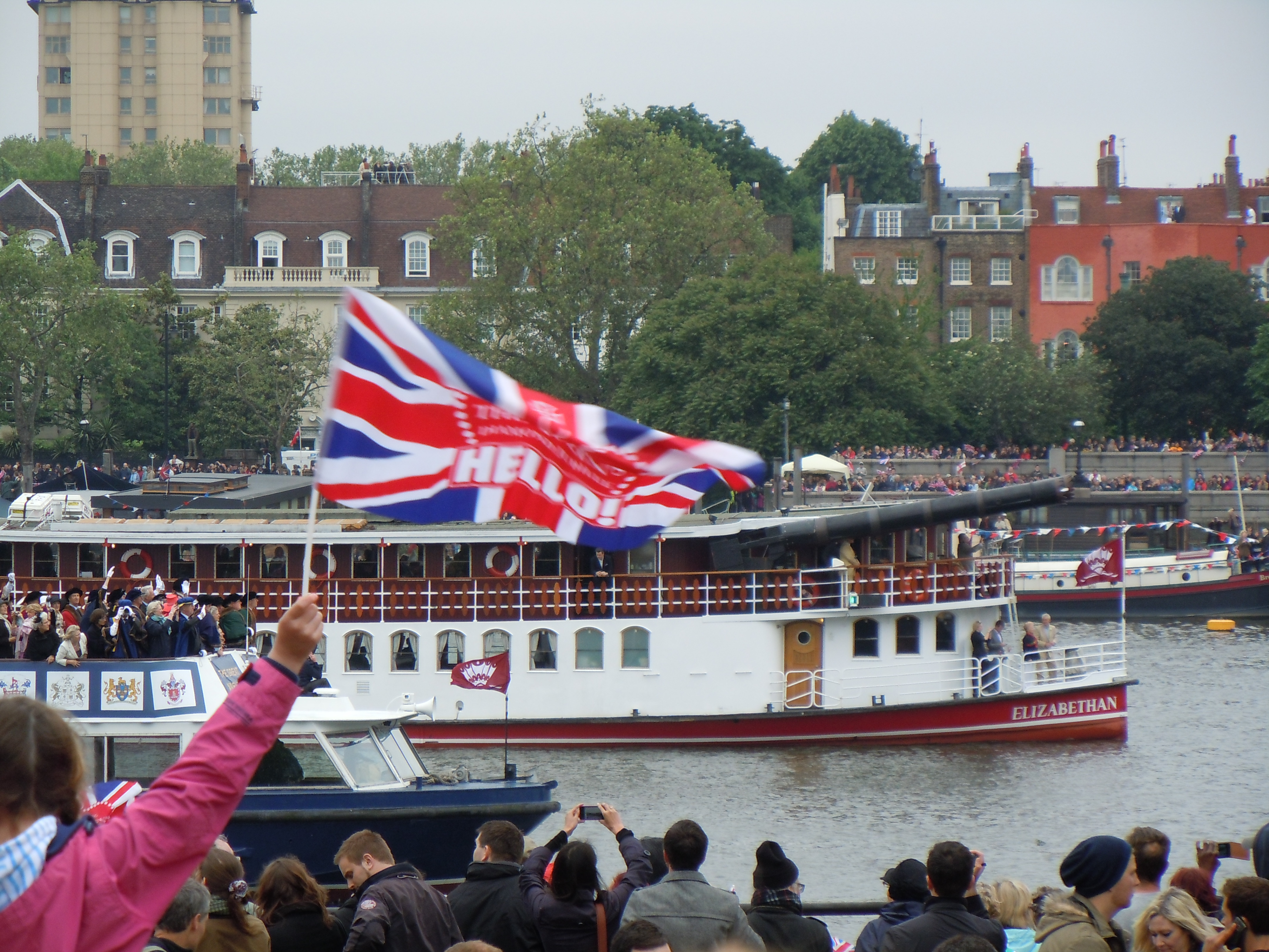 Diamond Jubilee Pageant of Queen Elizabeth II on the River Thames